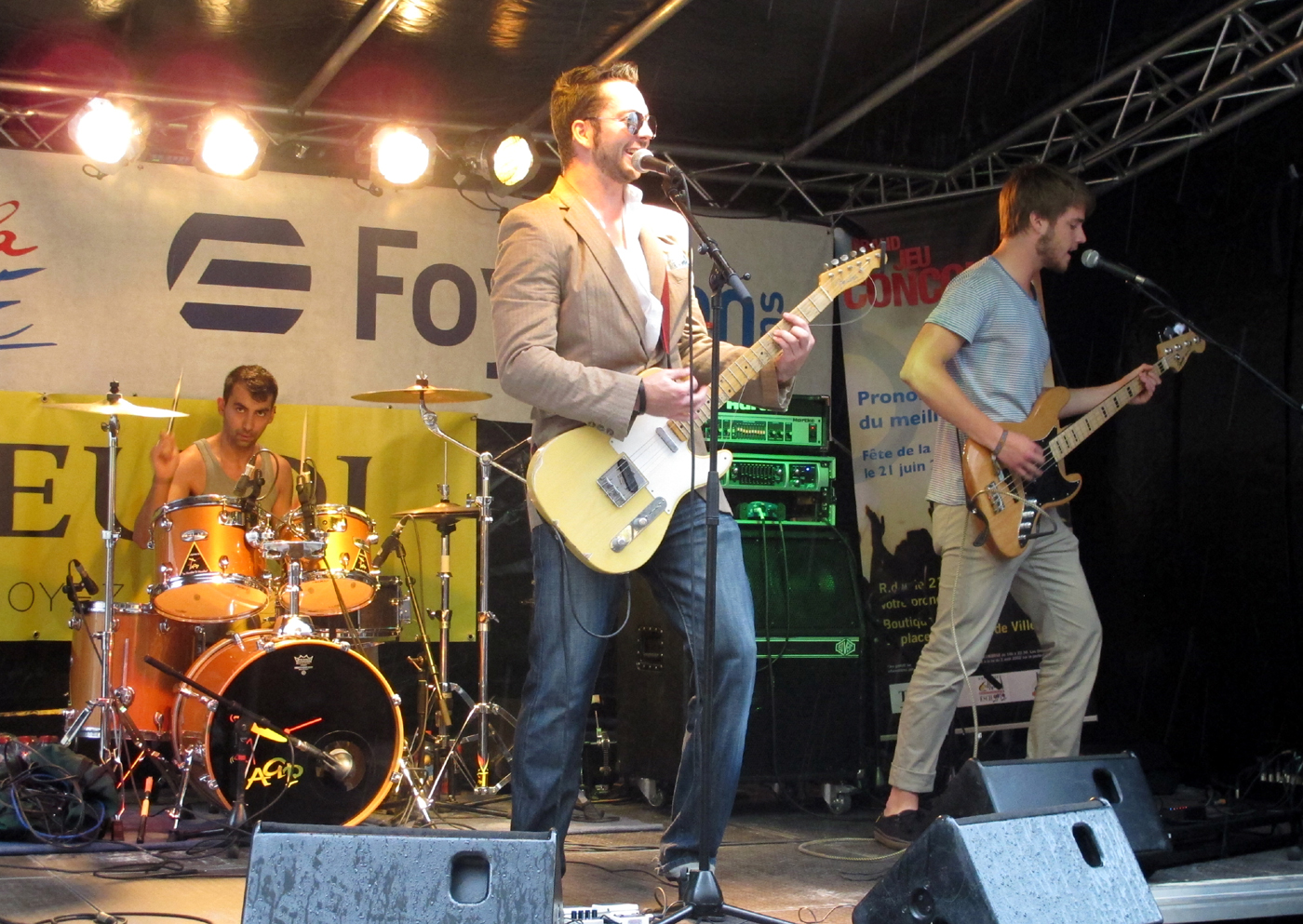 Rock group Lawyers Guns 'N' Money at the Fête de la musique in Esch-Alzette, Luxembourg, 2012